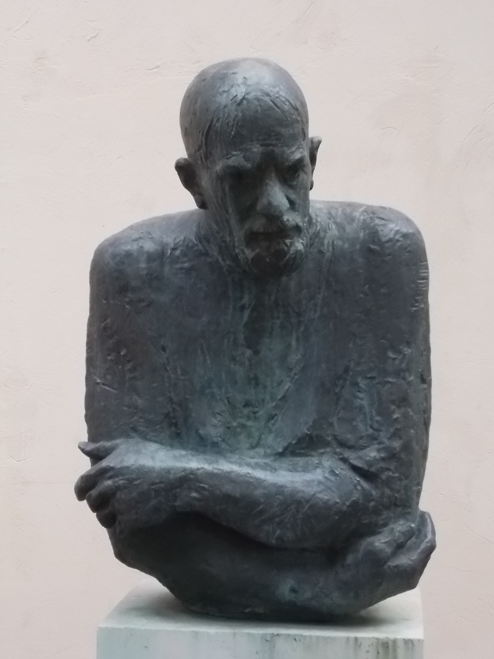 Bronze bust of Juhász Gyula in front of Juhász Gyula elementary school. - Báthori Street, Vác, Pest County, Hungary